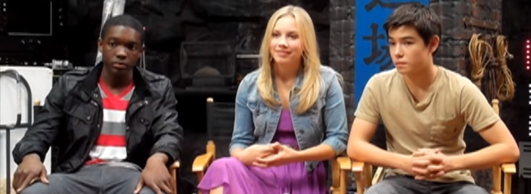 Ryan Potter, Gracie Dzienny and Carlos Knight from Nickelodeon's Supah Ninjas tell LA Teen Festival about their own real life martial art skills. You can read the entire interview at in issue #13.